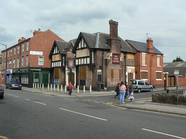 The Three Crowns On Main Street, Bulwell. Another one which has succumbed to the downturn in the pub trade.